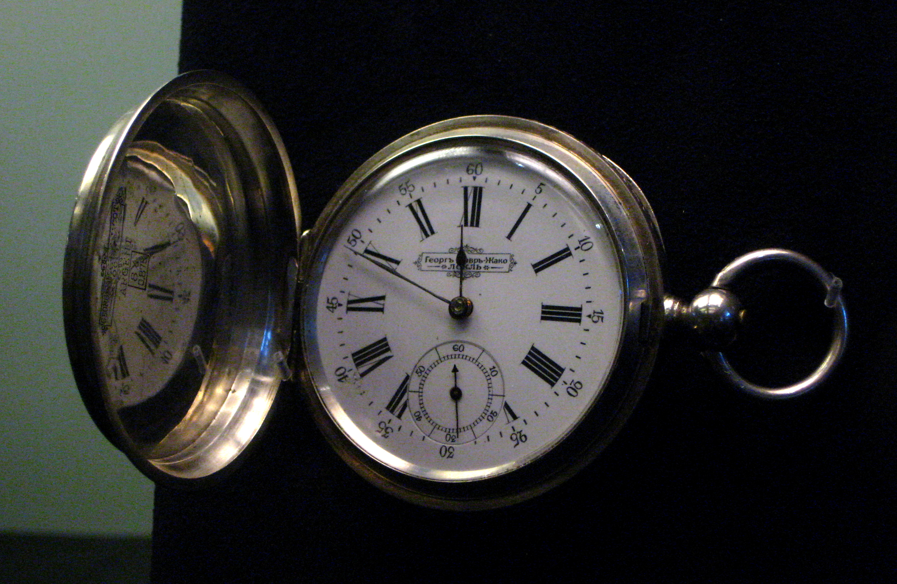 Hunter pocket watch. Georges Favre-Jacot. Switzerland. Circa 1880. Silver, engraving, enamel. Patrimoine Historique Zenith